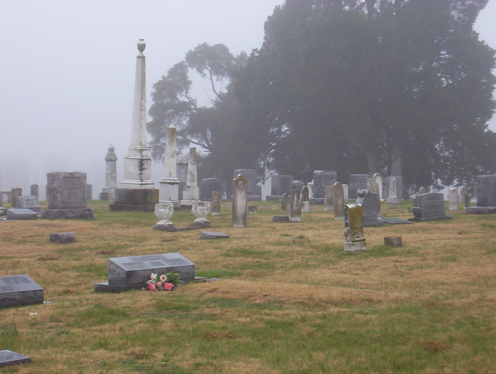 Gravestones at Trinity United Methodist Church Cemetery in Nutbush, TN (Dec. 2007) Photo made by: Thomas R Machnitzki I made the photo myself, feel free to use it.